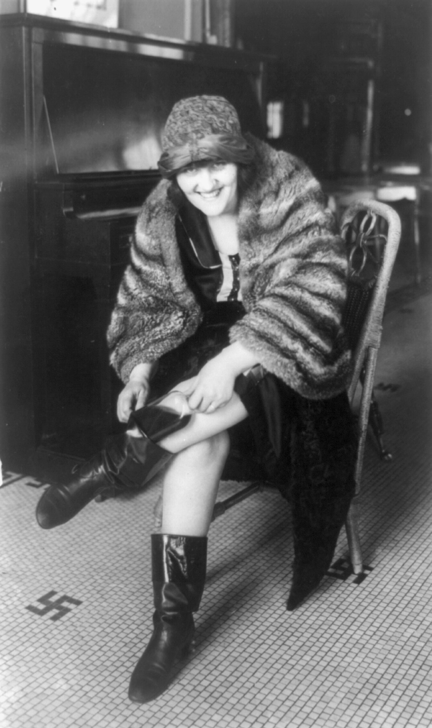 Woman putting flask in her Russian boot, Washington, D.C.